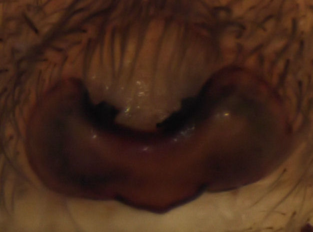 Huara grossa (epigynum)